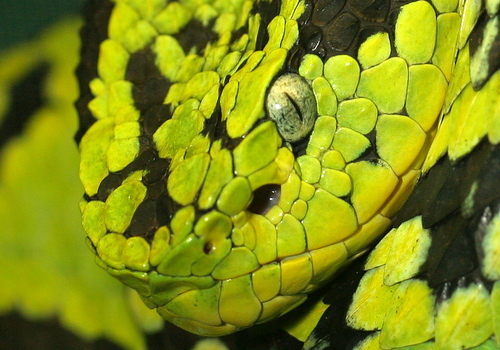 Bothriechis aurifer, closeup of the of the head.